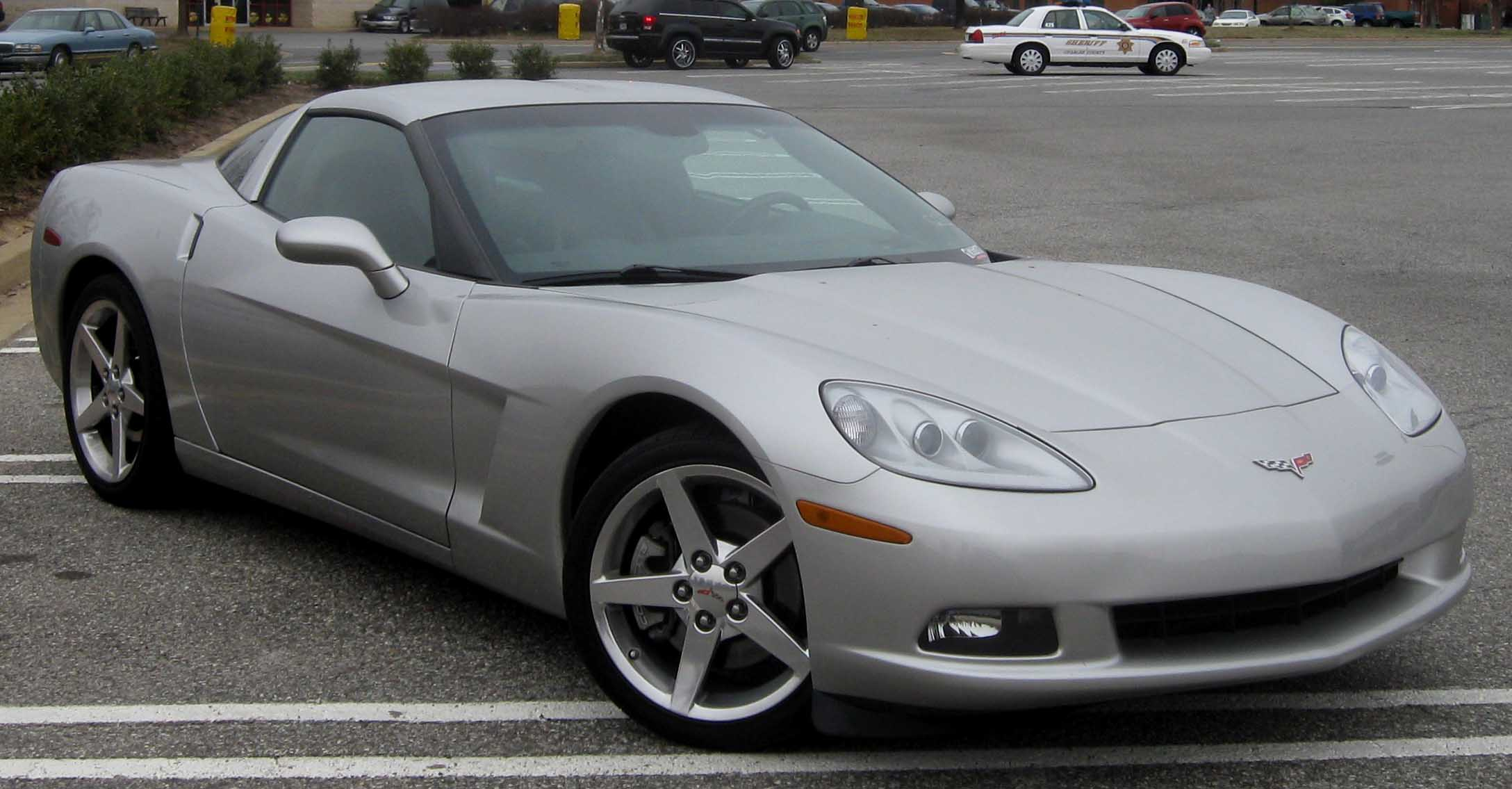 2005-2009 Chevrolet Corvette photographed in Waldorf, Maryland, USA.